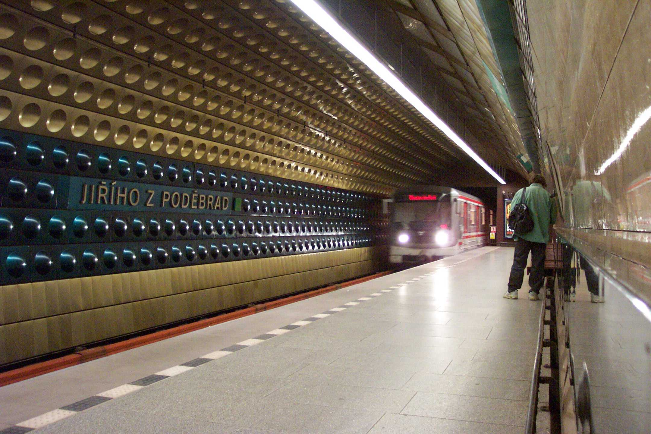 Train approaching to metro station Jiřího z Poděbrad in Prague